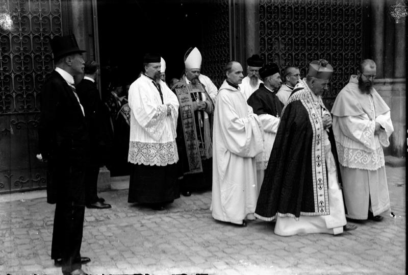 Funeral of Cardinal Van Rossum in the Church of St. Servatius in Maastricht, Netherlands. Willem Marinus van Rossum (1854-1932) was the first Dutch cardinal since the Reformation. Here a group of clergy with Monsignor Joosten leave the chapelle ardente in the South Portal (Bergportaal) in Henric van Veldekeplein, joining a funeral procession that went via Vrijthof square to the North Portal in Keizer Karelplein. Collection: RHCL, Maastricht, ref. nr. 17930.